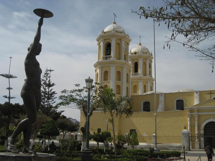 Cathedral and Plaza de Armas of Lambayeque, Peru.